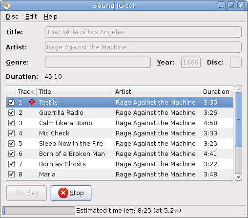 Screenshot of Sound Juicer 2.22.0 ripping a CD.